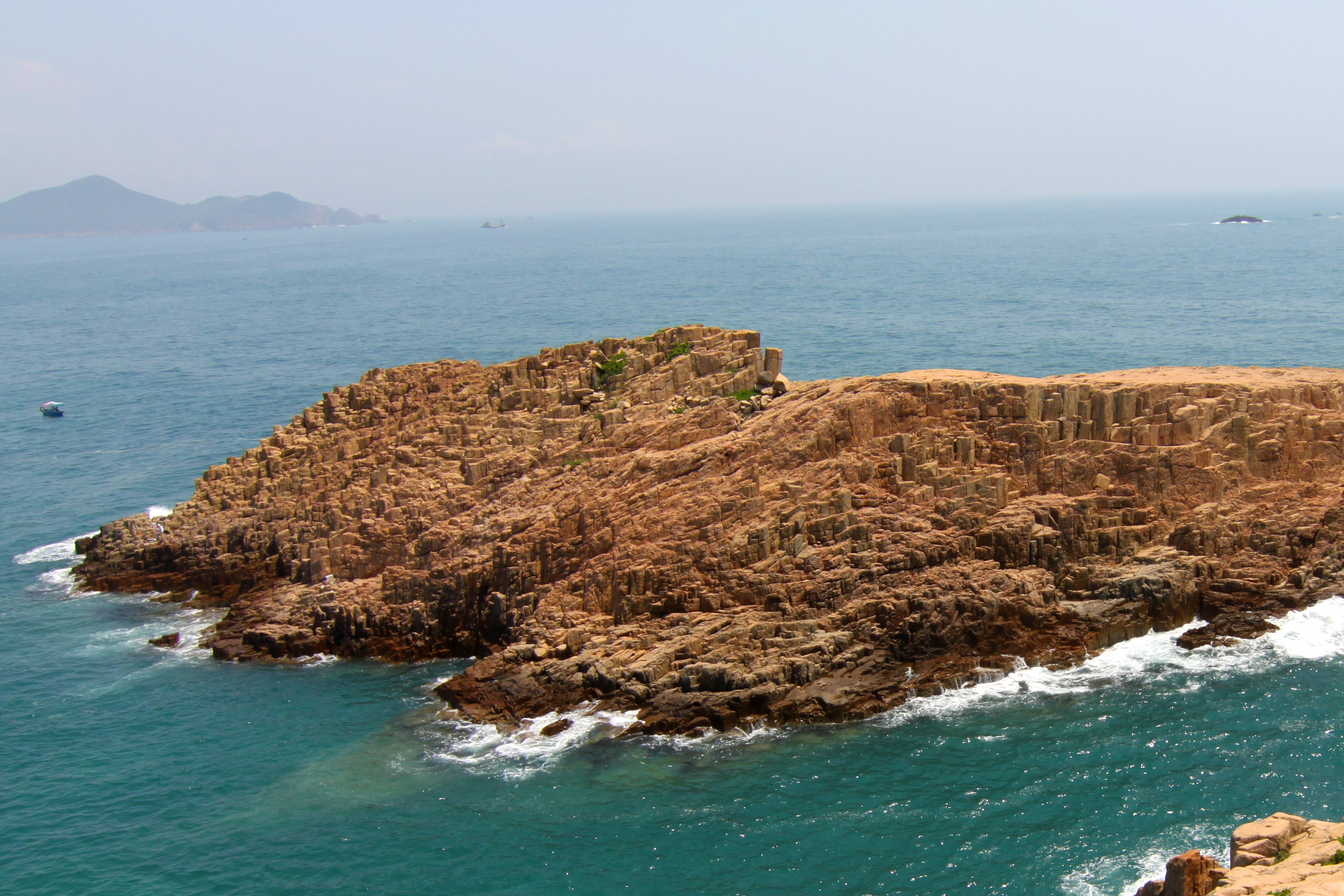 Hok Chai Pai, Ninepin Islands, Hong Kong Geopark